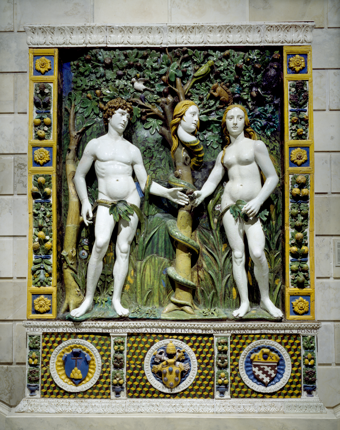 The first two humans are depicted with ideal bodies that recall ancient marble sculptures. The snake has a woman's face that resembles Eve's. During this period, women were often described as untrustworthy, and this negative idea is reflected in the gender of the face of the snake. The inscription on the base indicates that this is one of the many works of art made in Florence to celebrate the triumphal entrance of Pope Leo X, a member of Florence's Medici family, into the city on November 30, 1515. The central coat of arms is the pope's. To the right is that of the Salviati family, and to the left is that of the Buondelmonti family, demonstrating their support of the pope. For several generations, the artists of the Della Robbia family in Florence were noted for the production of brightly colored, glazed terracottas, often produced for architectural settings.